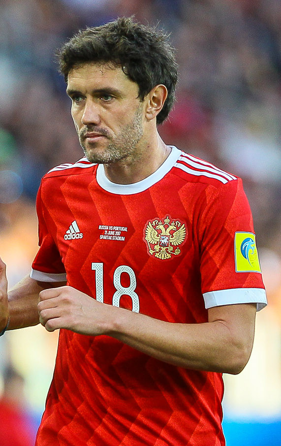 Russia VS. Portugal 0 - 1, 21 June 2017